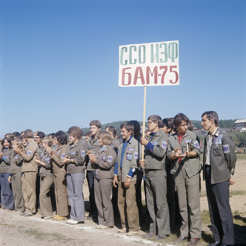 “Construction of Baikal-Amur Mainline”. Construction of Baikal-Amur Mainline.Student construction gang.